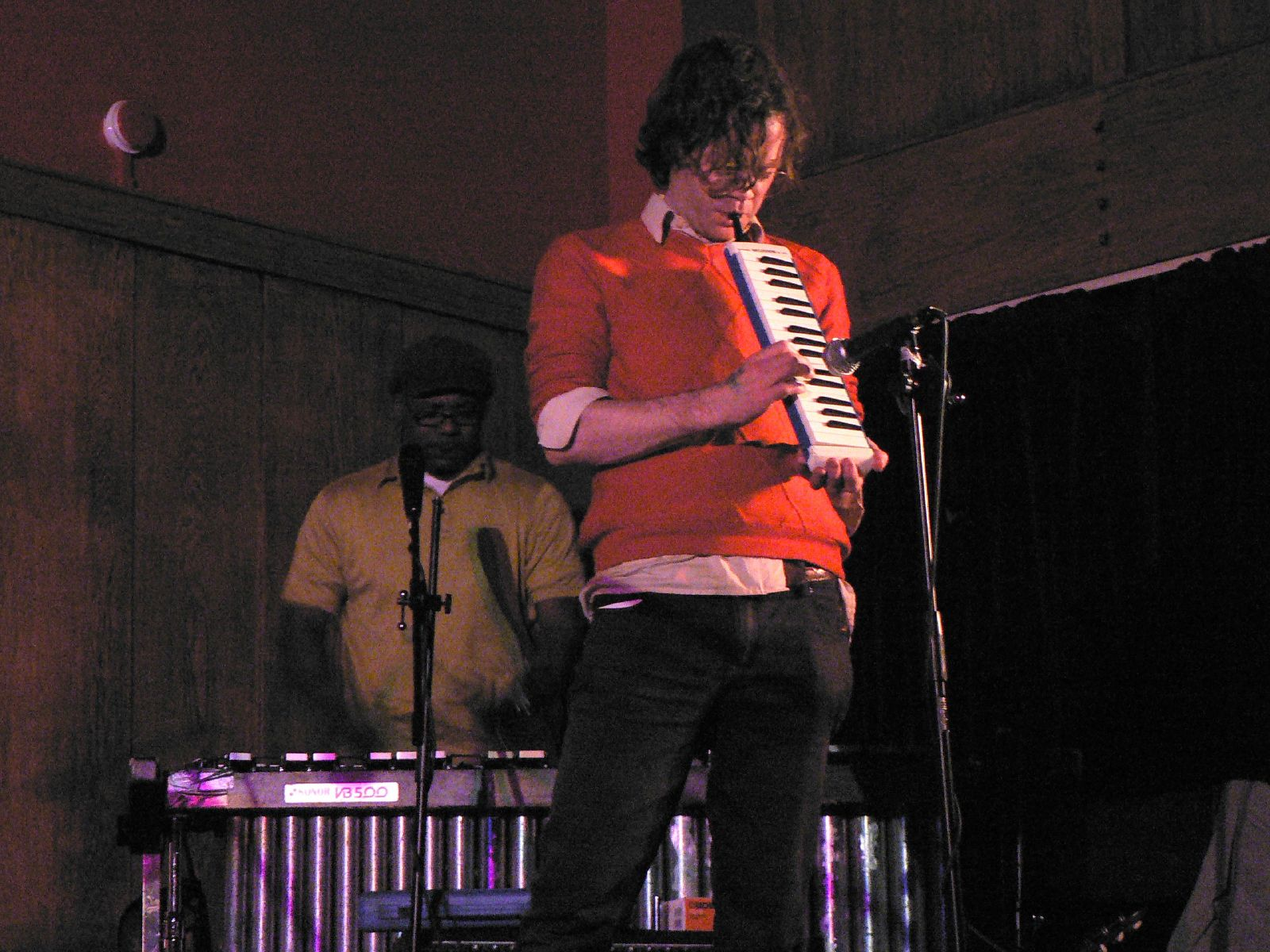 Conway Hall Ashley Wales John Coxon John Tchicai Spring Heel Jack Sunny Murray Han Bennink Orphy Robinson John Edwards